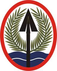 TIOH-approved Shoulder Sleeve Insignia (SSI) for the Multi-National Corps - Iraq